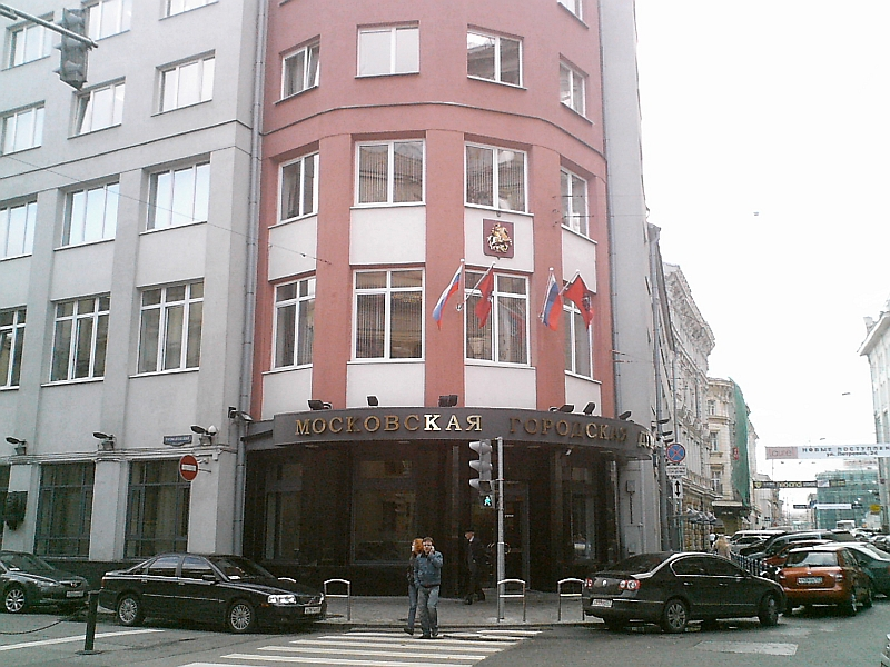 City Duma Moscow Russia